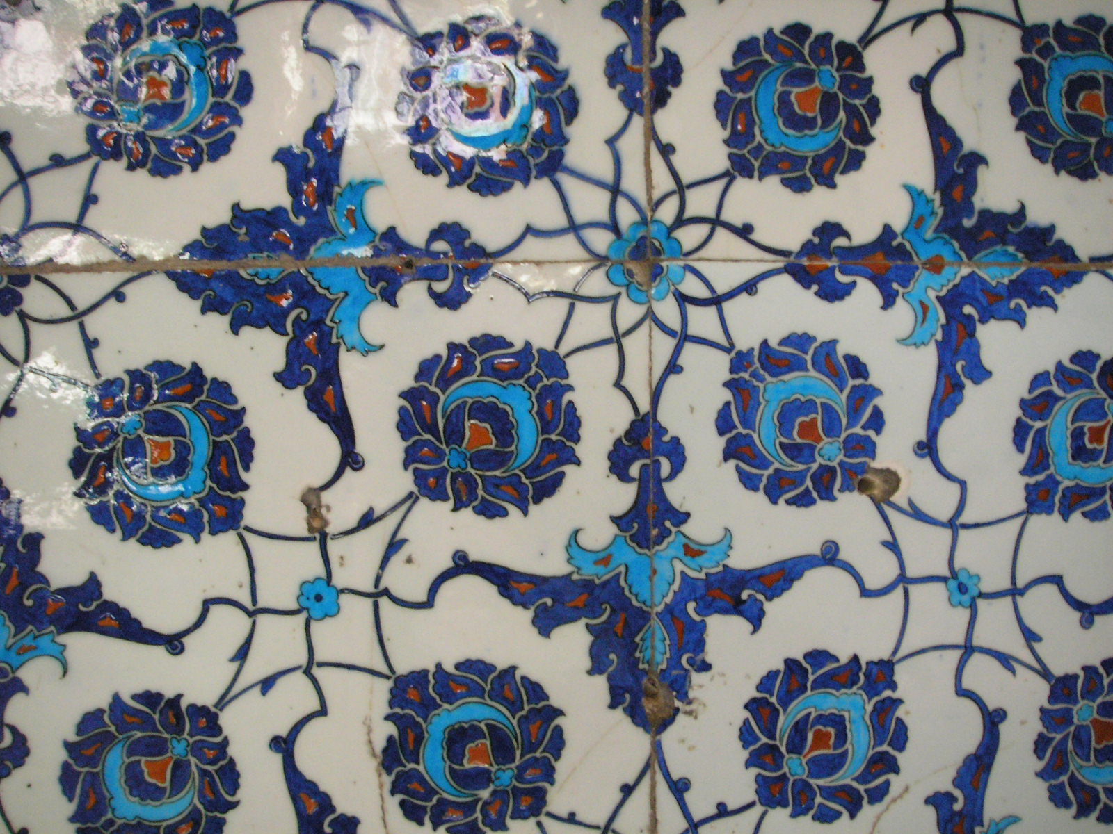 İznik tiles in the Neo-classical Enderûn Library (Enderûn Kütüphanesi), also known as Library of Sultan Ahmed III (III. Ahmed Kütüphanesi), is situated directly behind the Audience Chamber (Arz Odası) in the centre of the Third Court of the Topkapi Palace in Istanbul.